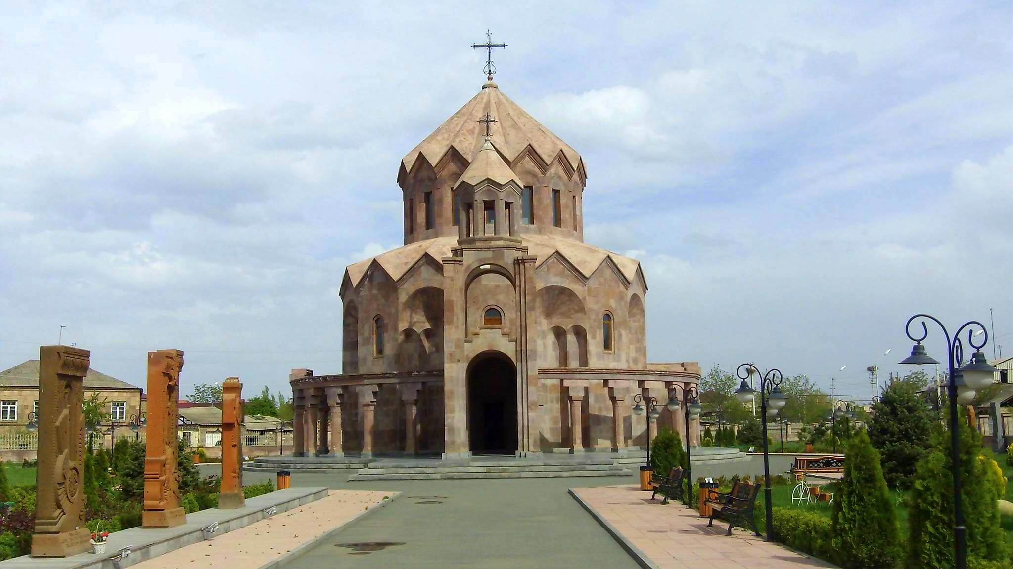 St Anna Church, Aghavnatun, Armavir, 2012